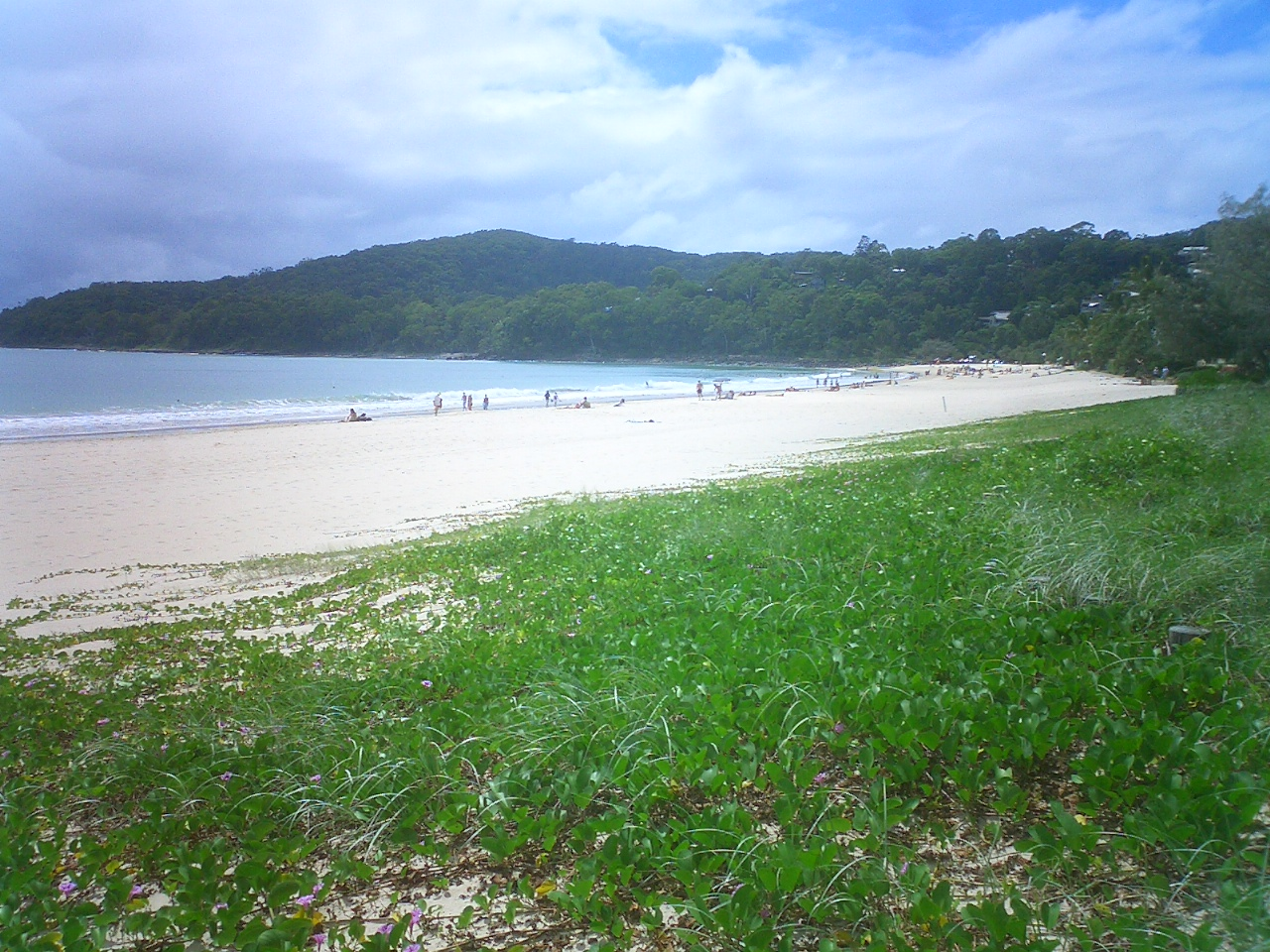 The beach of Noosa Heads Queensland, with the headlands in the background. Photo by Raffi Kojian.